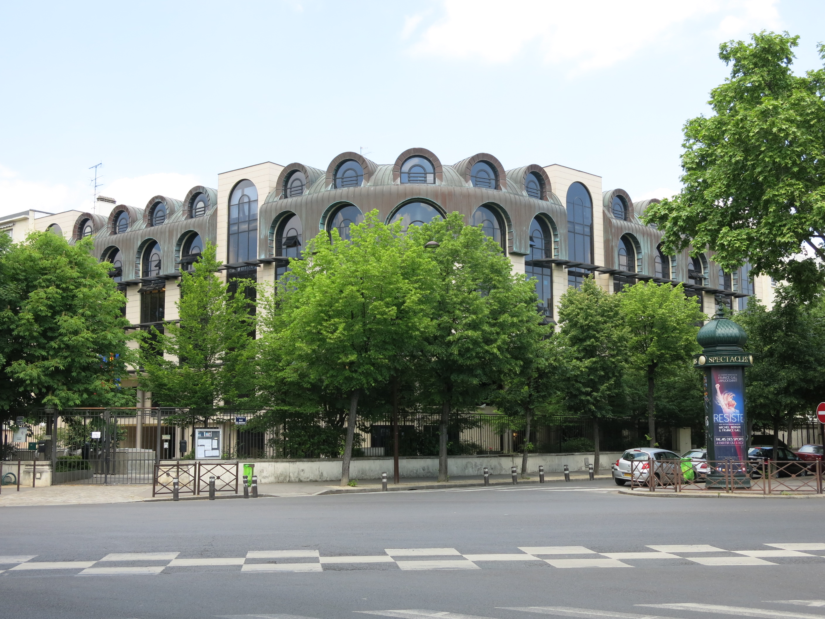 Liceo Español Luis Buñuel (Spanish high school Luis Bunuel), 38 boulevard Victor Hugo, Neuilly-sur-Seine (Hauts-de-Seine, France).